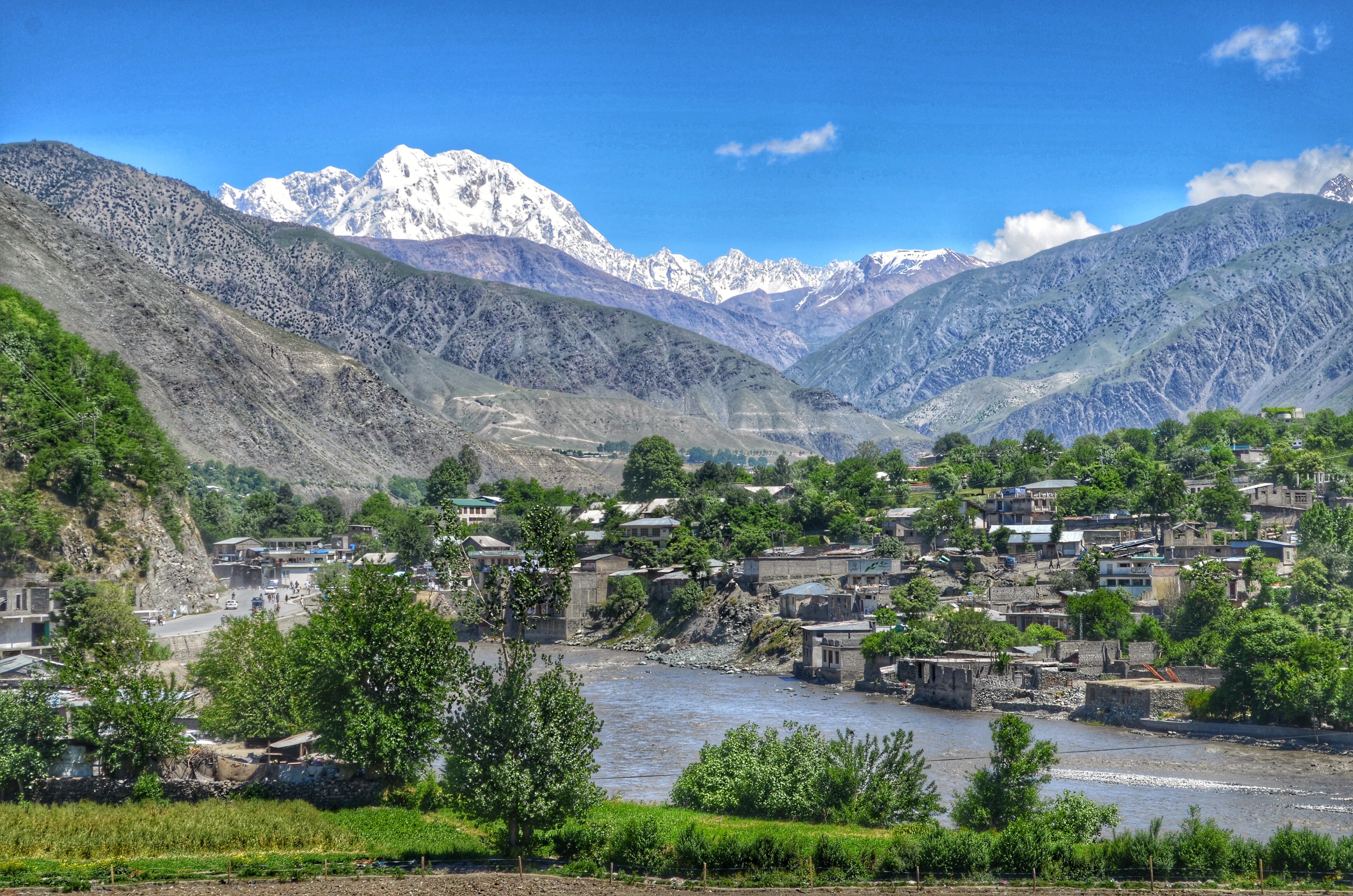 The city of Chitral with the massive Tirich Mir, the 33rd highest mountain in the world, overlooking it.